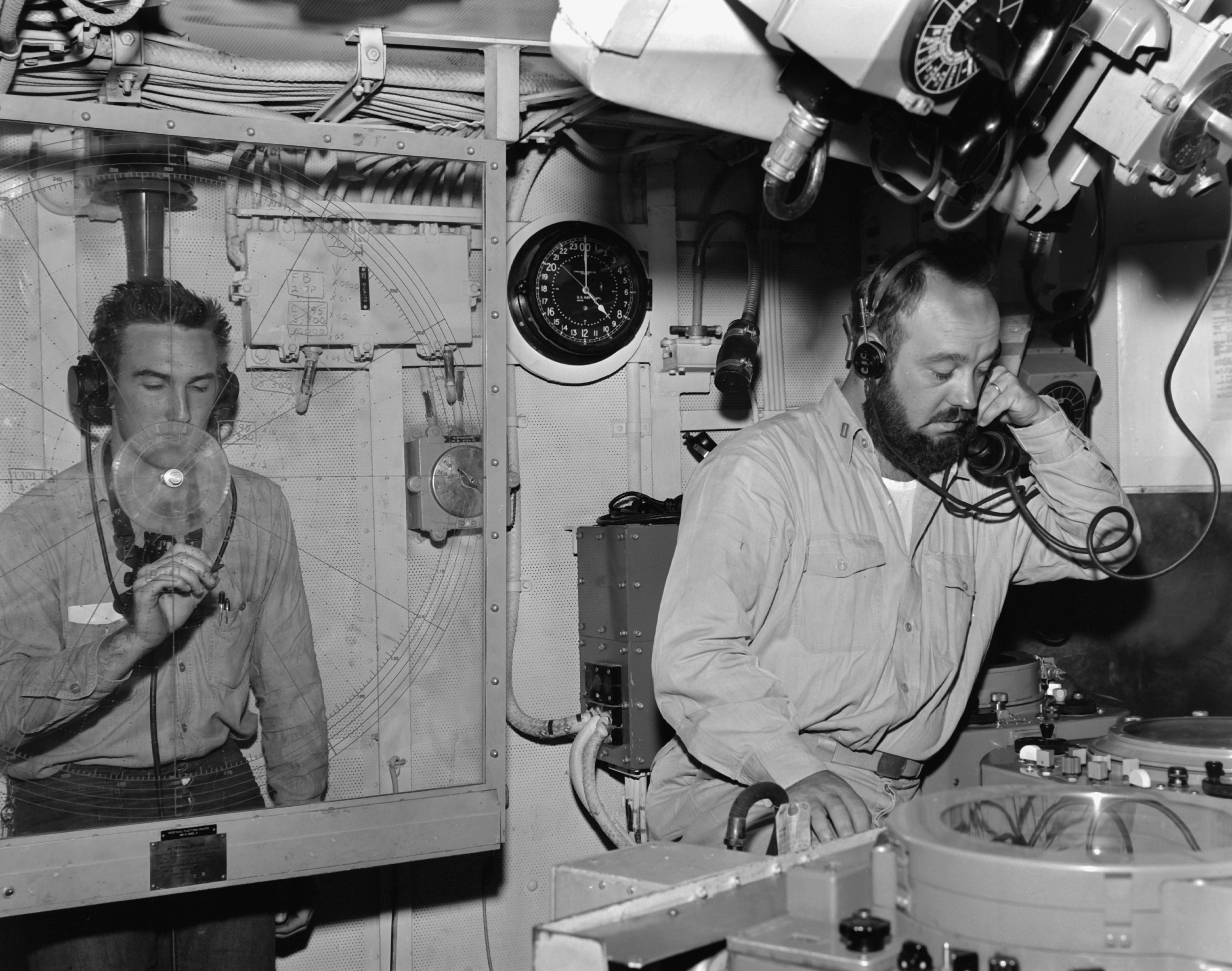 Two U.S. Navy sailors (Lt. John V. Hadley (right) and Wade Whitefield, RD3) in the combat information center of the Fletcher-class destroyer USS Taylor (DDE-468) off Wonsan, Korea on 30 September 1952.